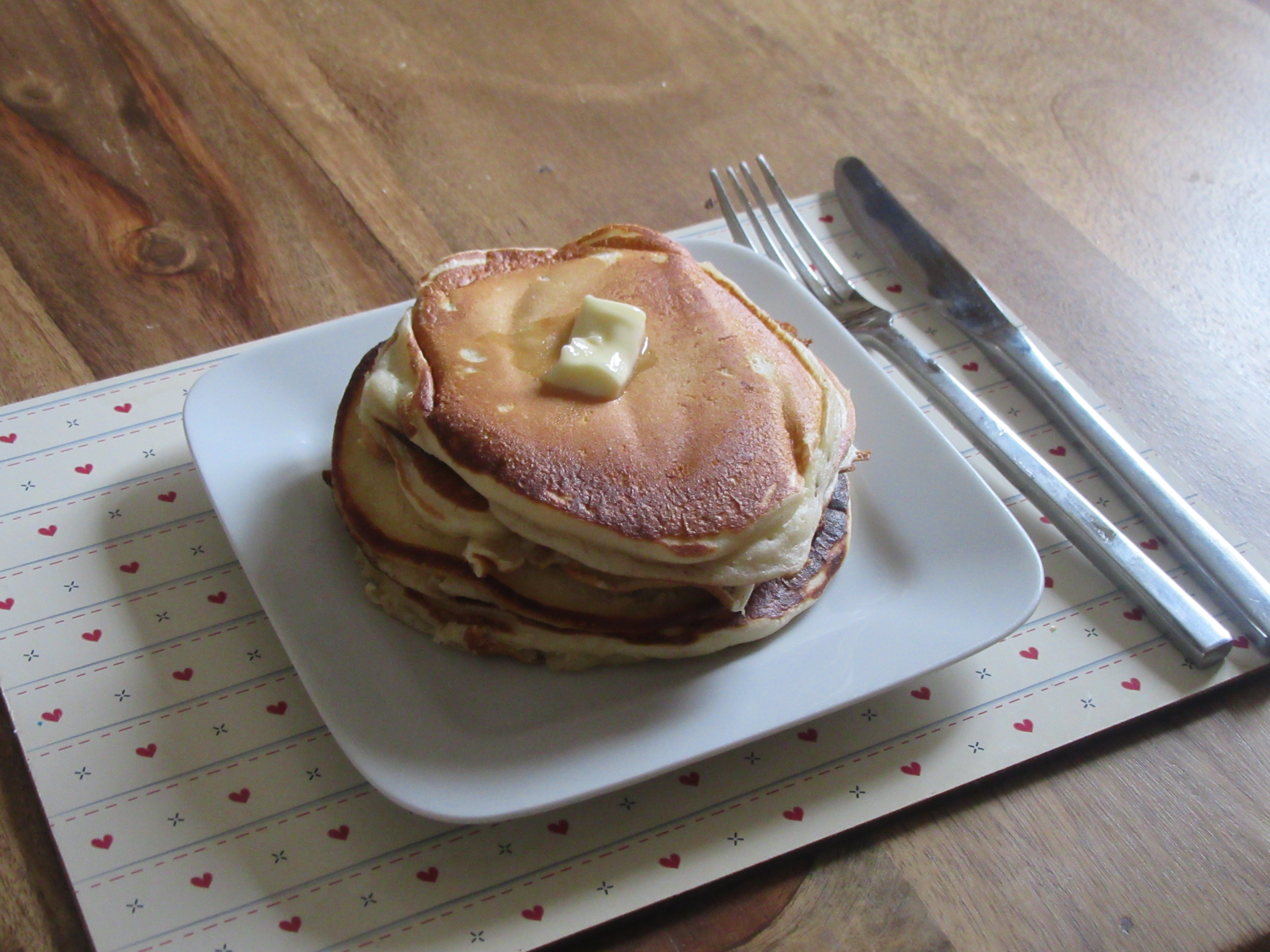 Crempog (Welsh pancakes), served in a stack with butter. Made by Mrs FruitMonkey in a south Wales home, using the Anglesey recipe described by Bobby Freeman in First Catch Your Peacock: A Book of Welsh Food (1980).